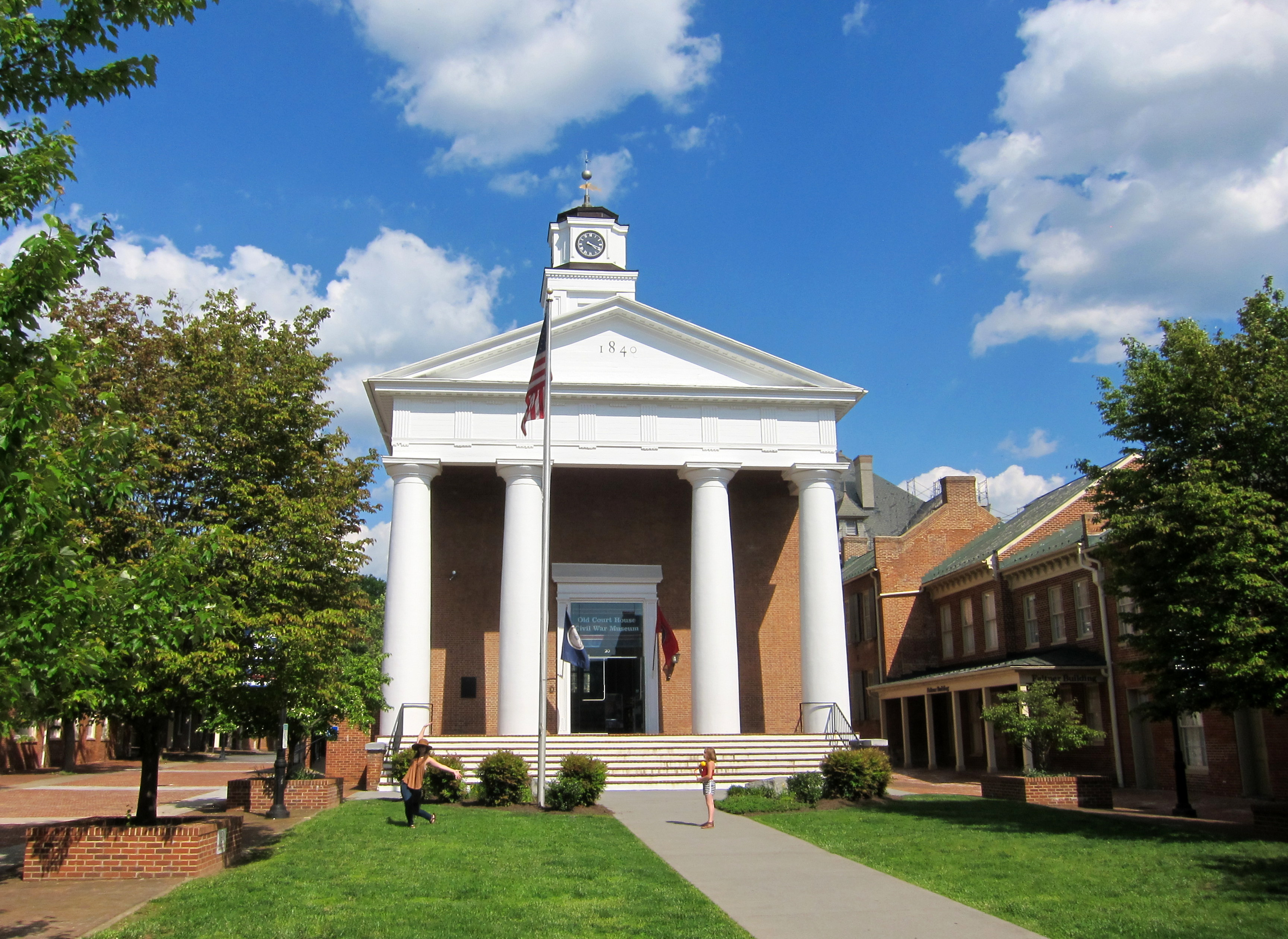 The former Frederick County Courthouse in Winchester, Virginia, United States.